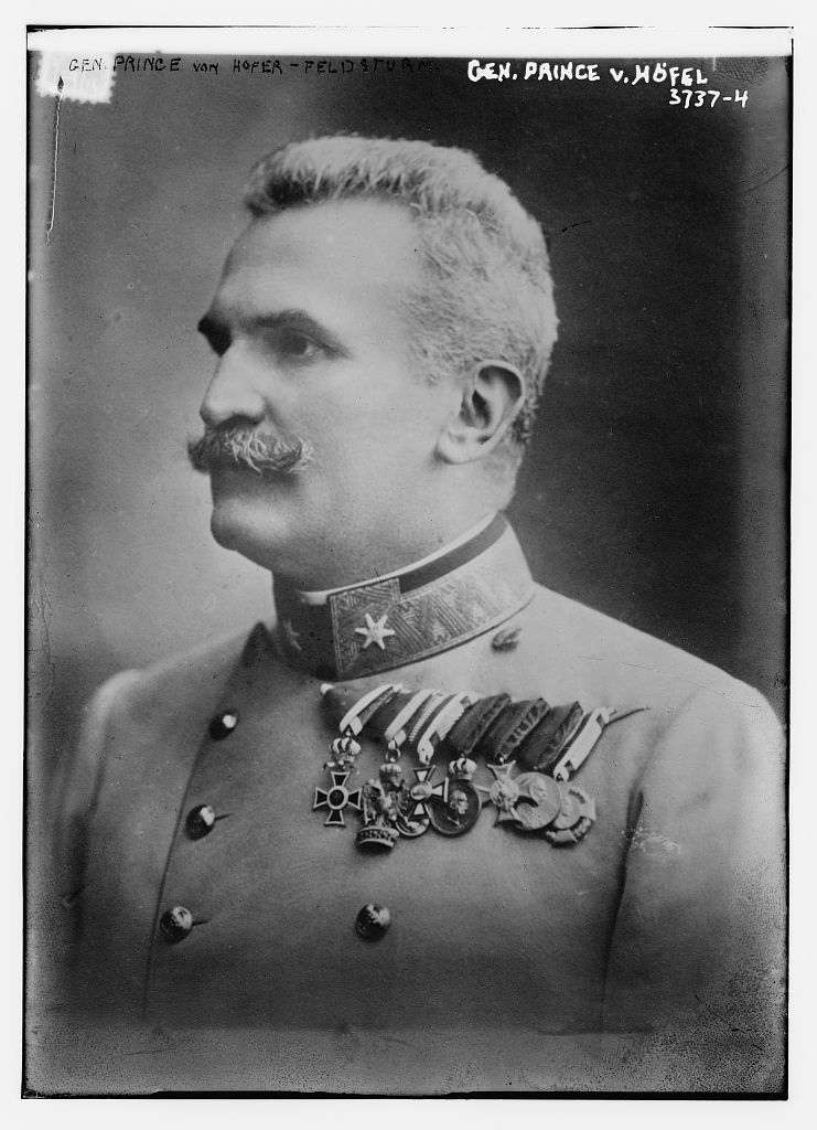 Franz Ritter Höfer von Feldsturm circa 1916